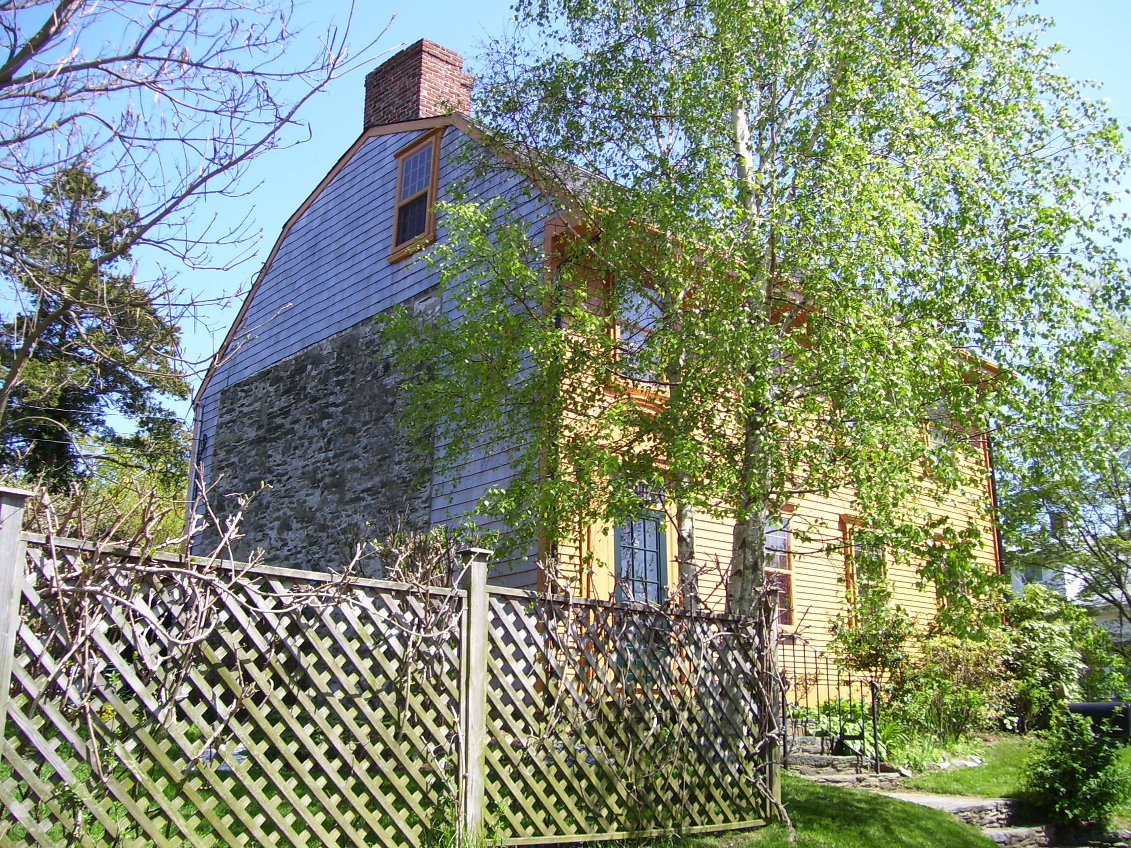 My pic of Bliss House in Newport Rhode Island in 2008.